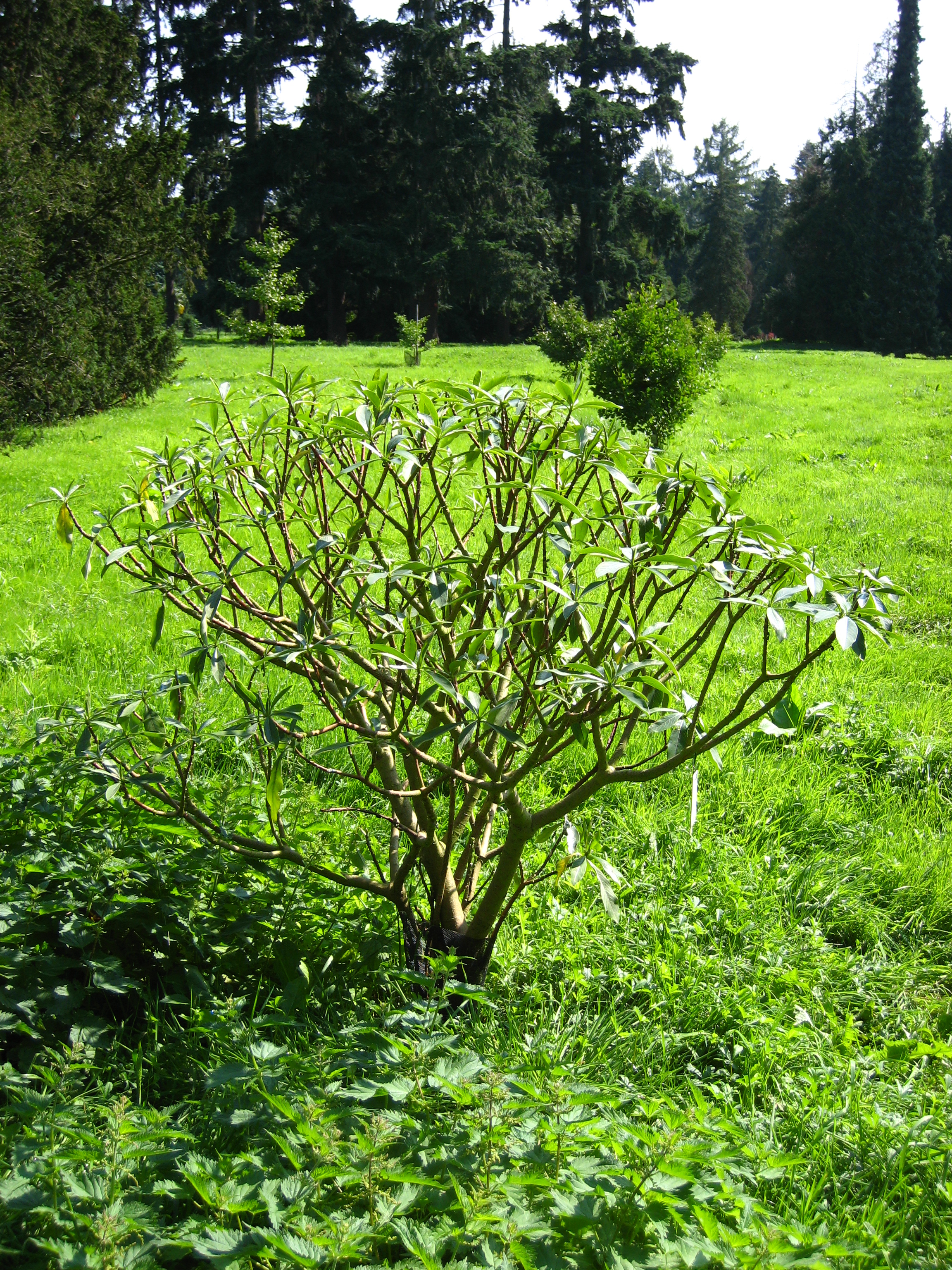 Edgeworthia chrysantha in the Arboretum de Chèvreloup in Rocquencourt.